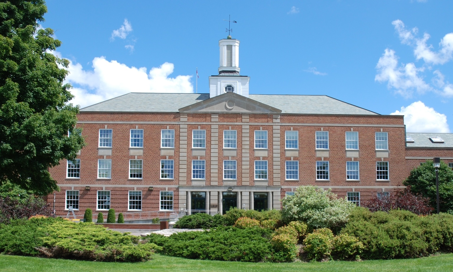 Main entrance of Building "A", Canada Mortgage and Housing Corporation headquarters, Ottawa, Ontario, Canada